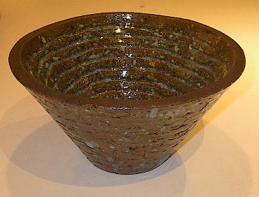 Ceramic vessel shape by Southern Californian ceramist Barbara Willis c. 2002